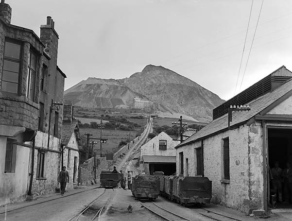 Teitl Cymraeg/Welsh title: Y chwarel yn Nhrefor Nodyn/Note: Spectacular view along the tramlines towards the quarry at Trefor. Cyfrwng/Medium: Negydd ffilm / Film negative Cyfeiriad/Reference: (gch09723) Rhif cofnod / Record no.: 3369292 Rhagor o wybodaeth am gasgliad Geoff Charles yn Llyfrgell Genedlaethol Cymru More information about the Geoff Charles Collection at the National Library of Wales Mae ffotograffau Geoff Charles hefyd yn rhan o Broject Europeana Libraries Geoff Charles' photographs also form part of the Europeana Libraries Project